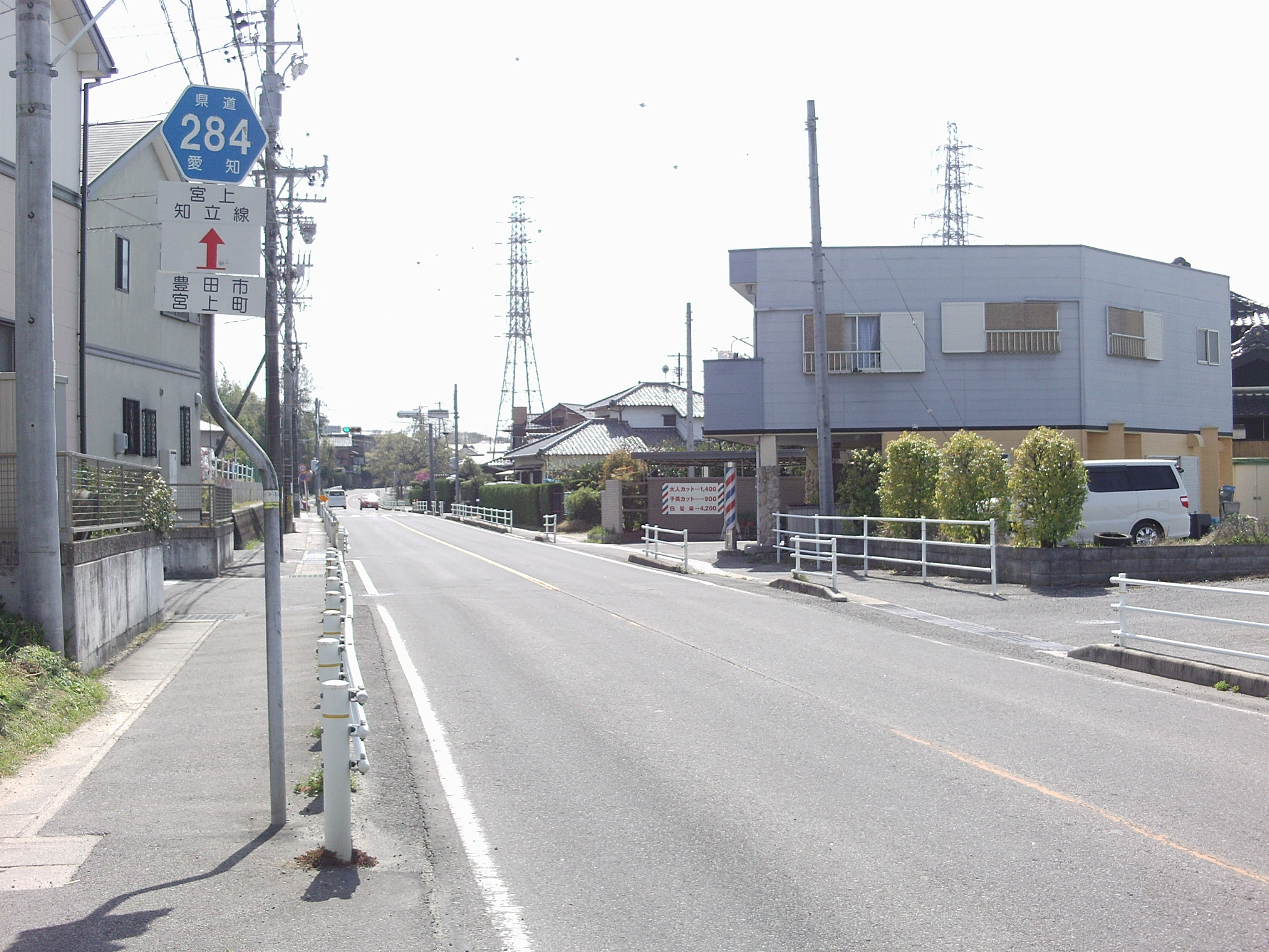 Aichi prefectural road No.284 in Miyagamicho, Toyota, Aichi.